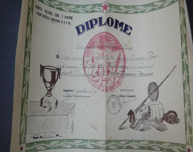 50m ushta